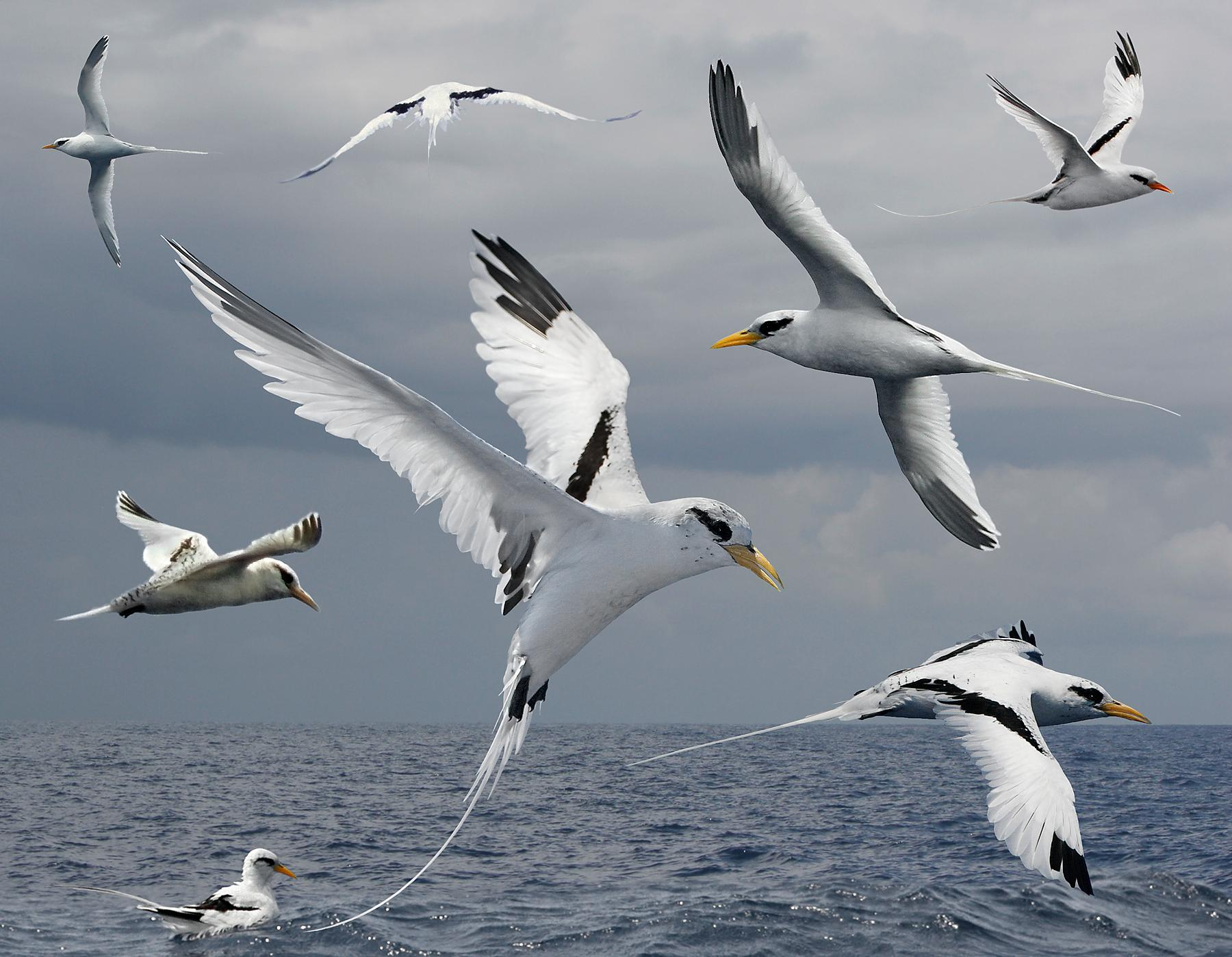 White T Tropicbird From The Crossley ID Guide Eastern Birds